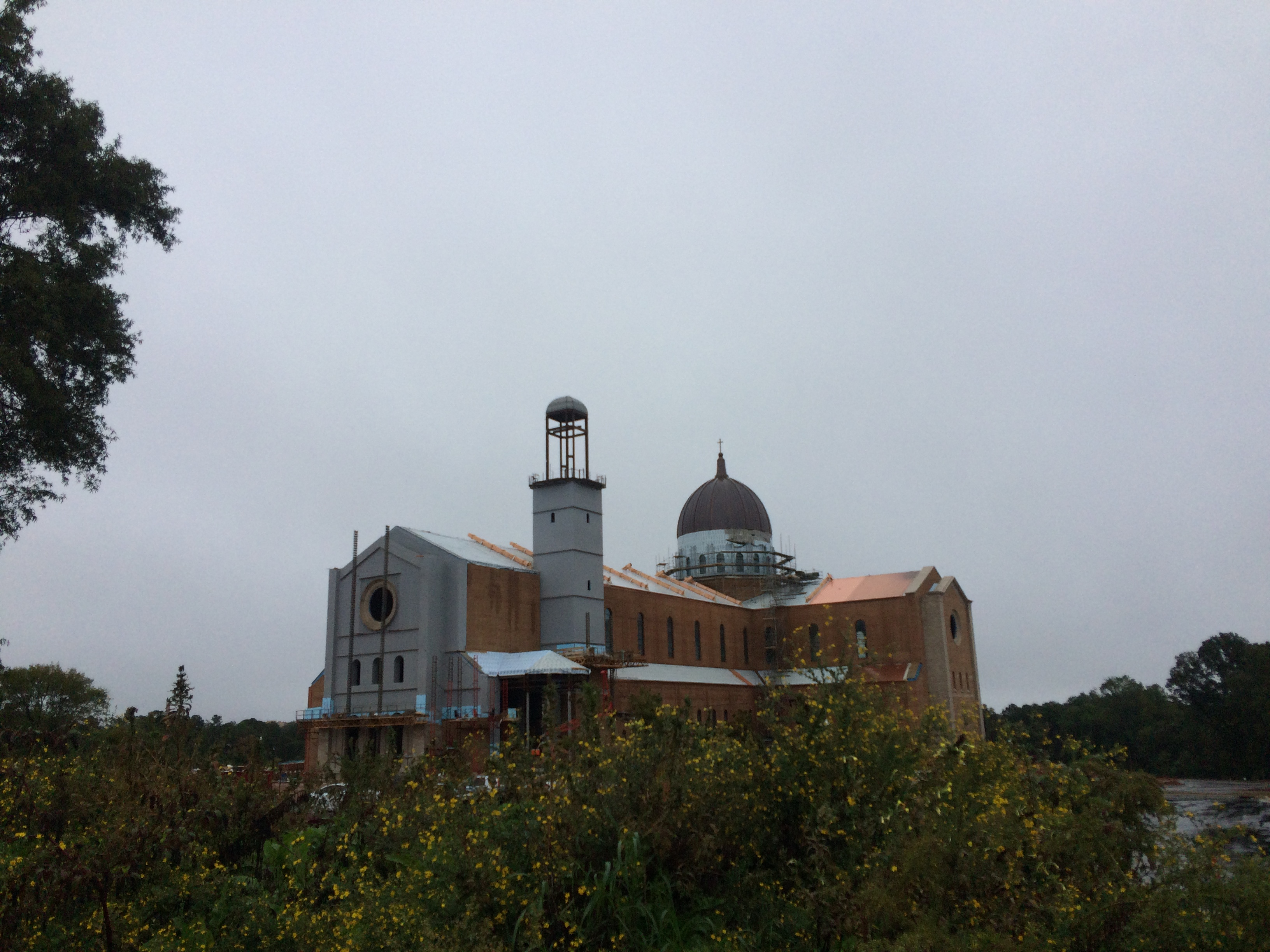 Holy Name of Jesus Cathedral in Raleigh, North Carolina